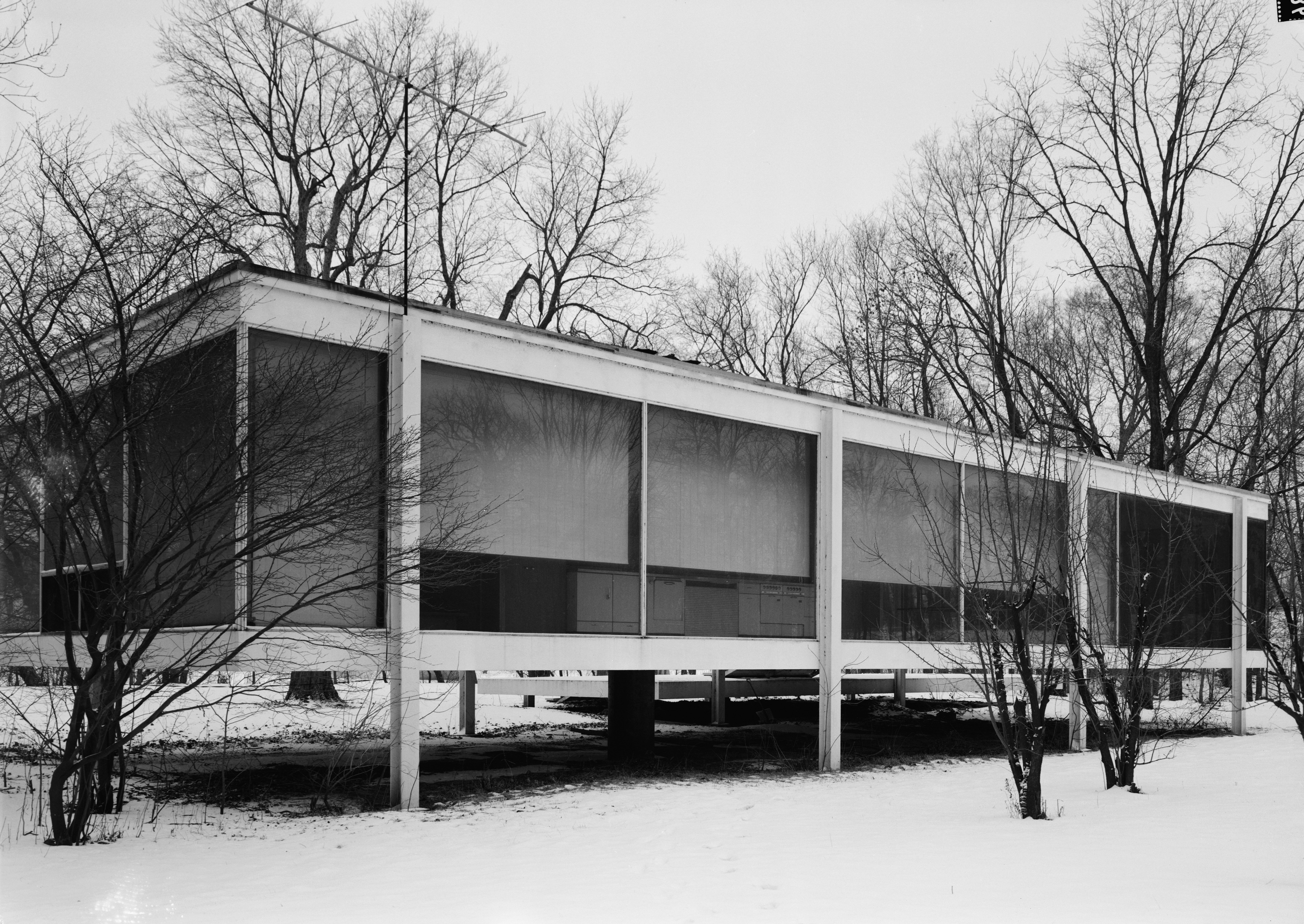 Edith Farnsworth House, Fox River & Milbrook Roads, Plano vicinity, Kendall County, Illinois - north elevation, seen from northeast. Designed by Ludwig Mies van der Rohe